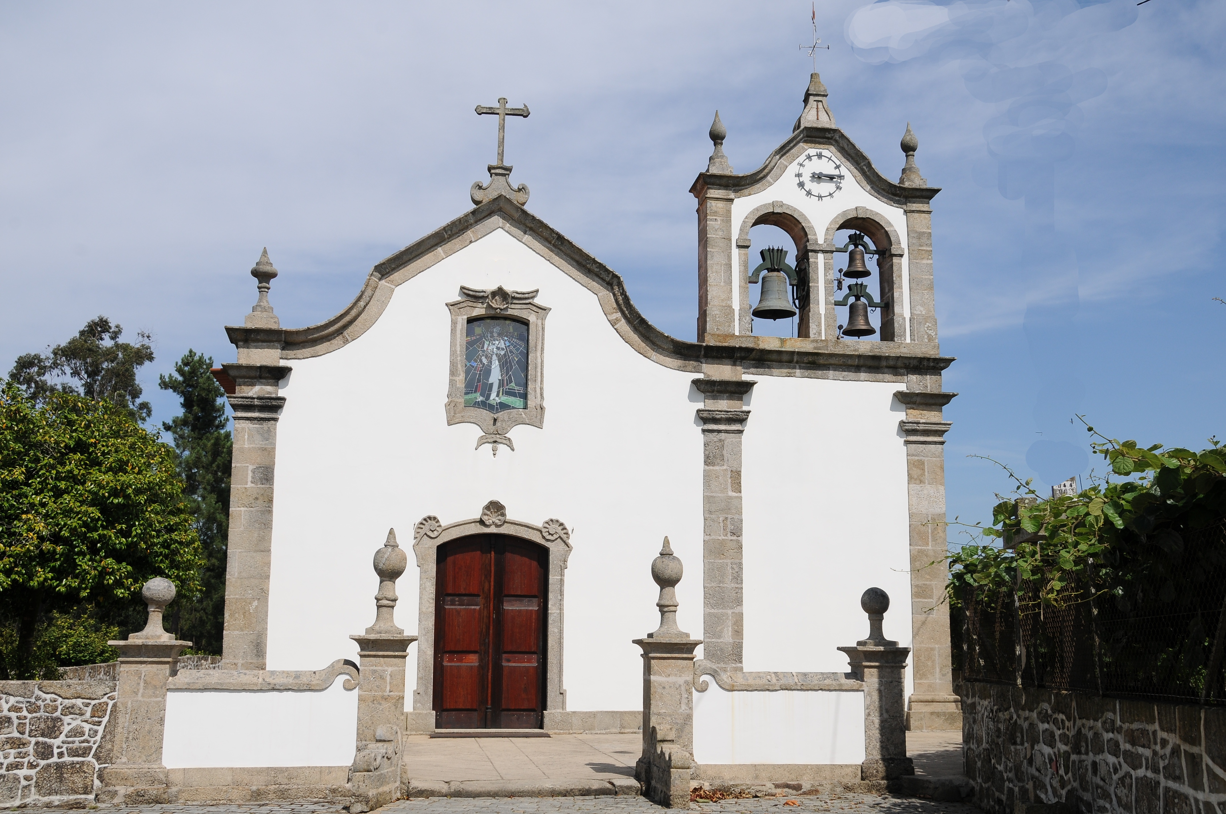 Rio Covo Santa Eugenia Church, in Rio Covo, Barcelos, Portugal